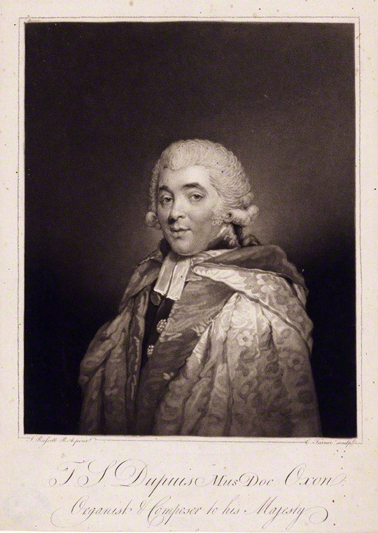 Depicted person: Thomas Sanders Dupuis